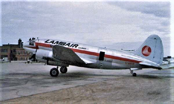 Lamb Air Curtis C-46